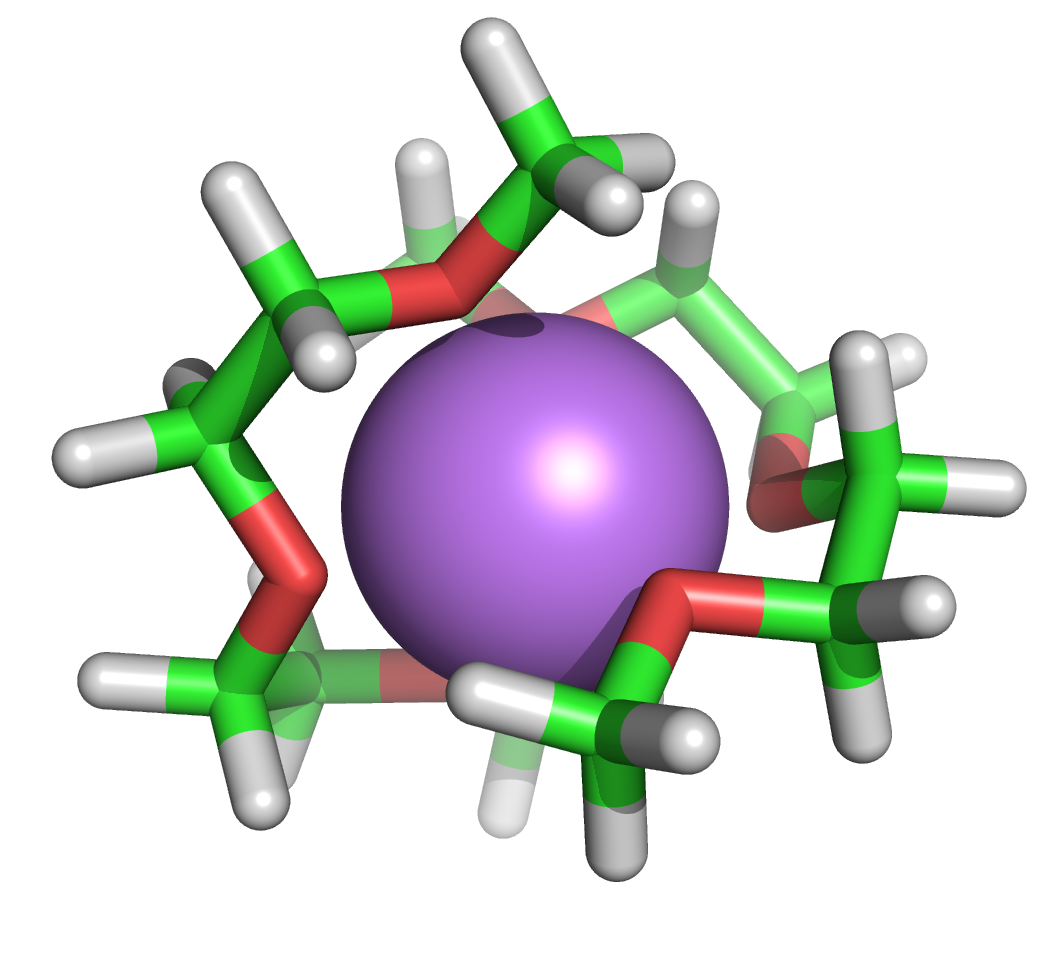 Lithium cation chelated by a tridentate diglyme molecule Molecular geometry obtained via PM3 semi-empirical method in ArgusLab Rendered in PyMol